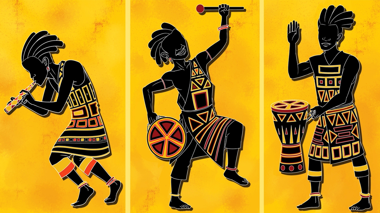 African Traditional Music